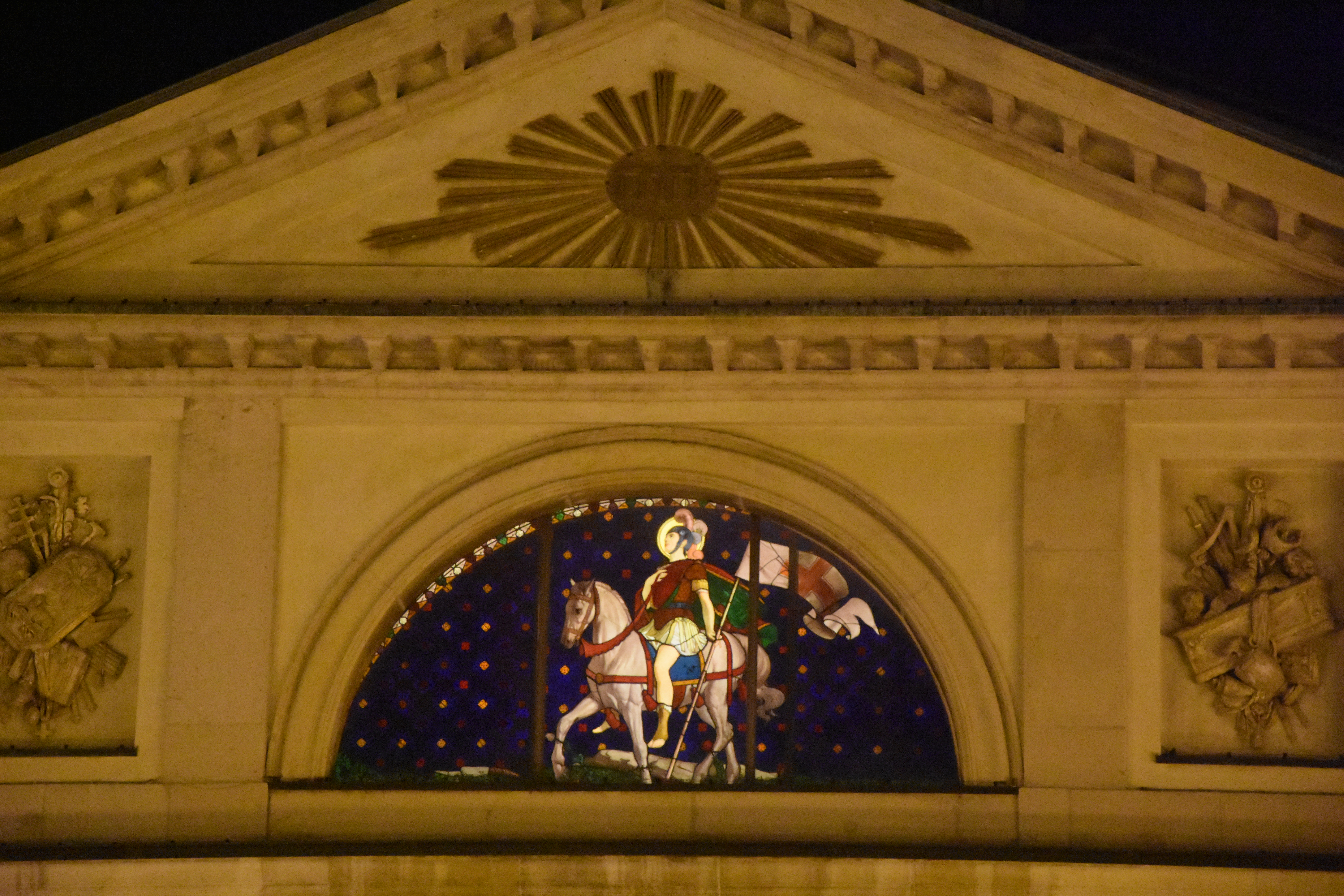 San Vittore in Varese, Italy.